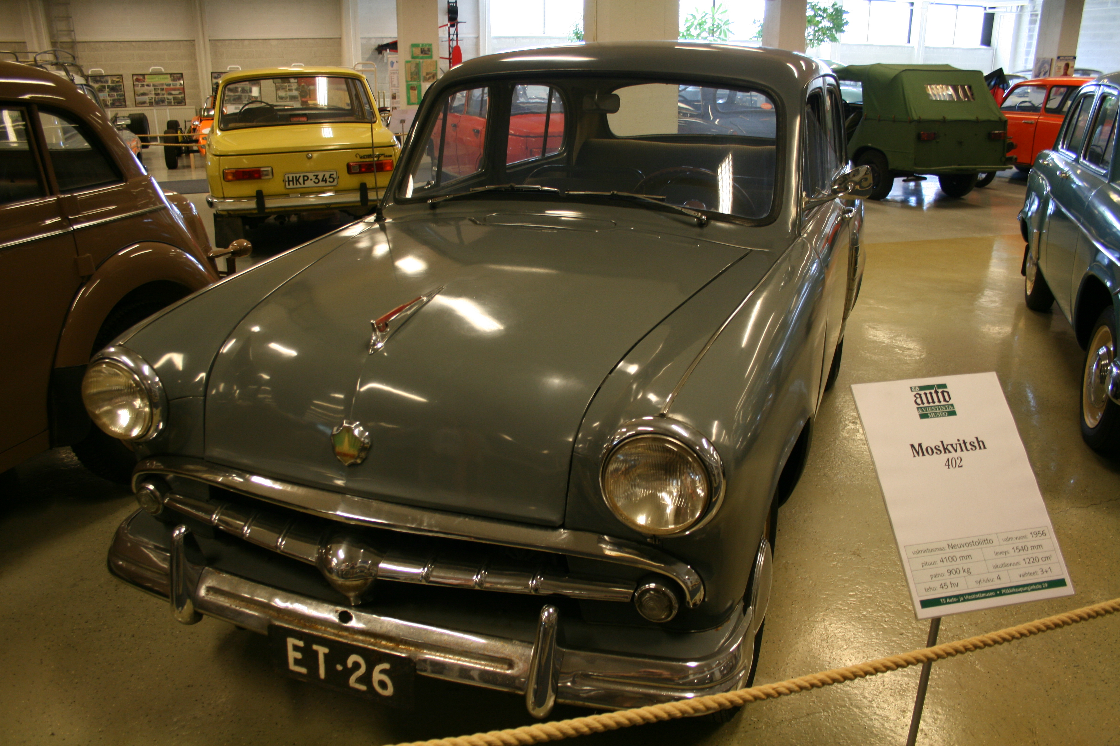 Moskvich 402 at the Car and Communication Museum in Finland